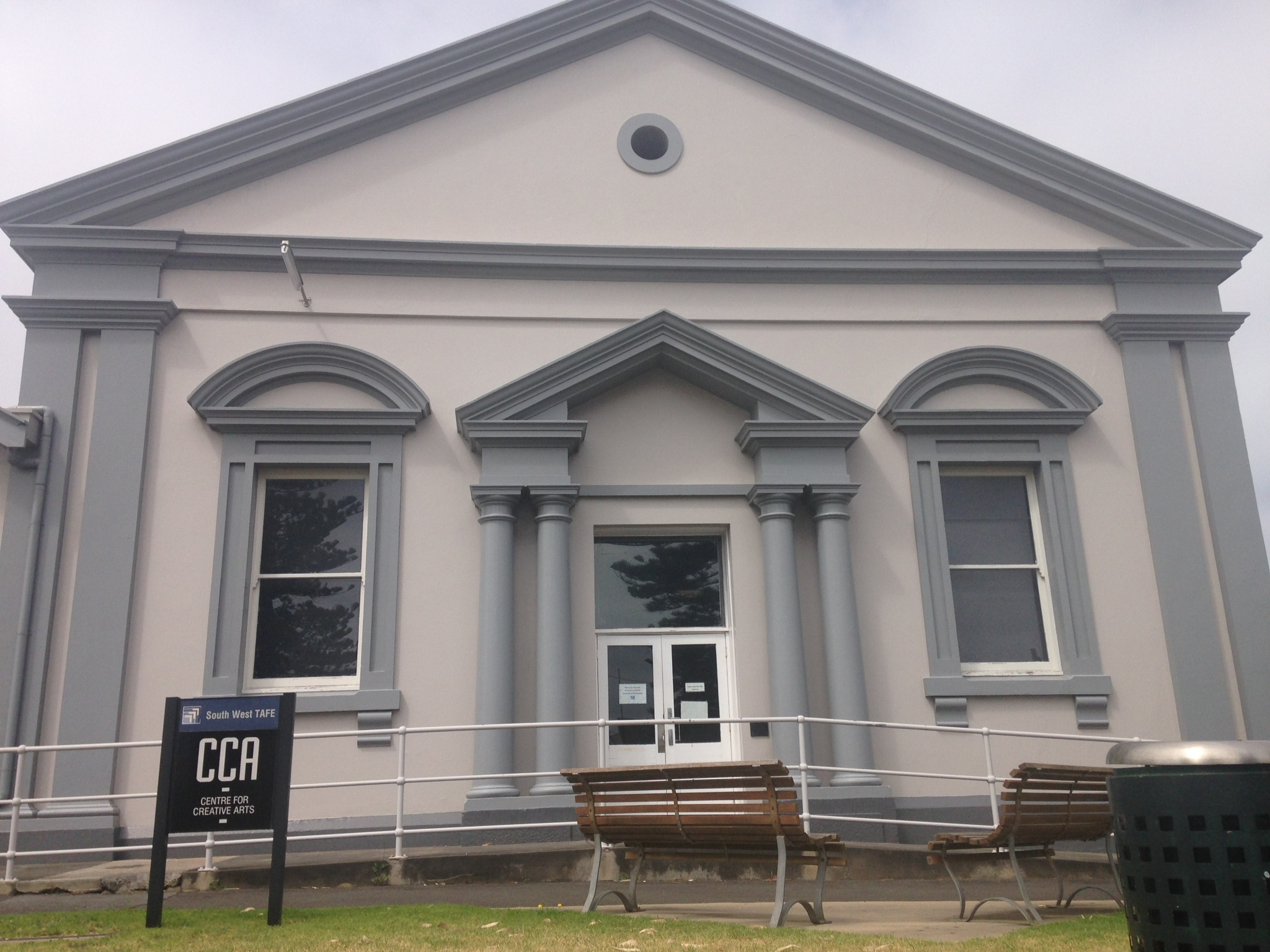 Previous library building, South West College of TAFE Warrnambool